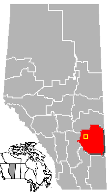 Location of Hanna, Census Division No. 4, Albera